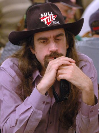 Chris "Jesus" Ferguson in 2006 World Series of Poker - Rio Las Vegas.